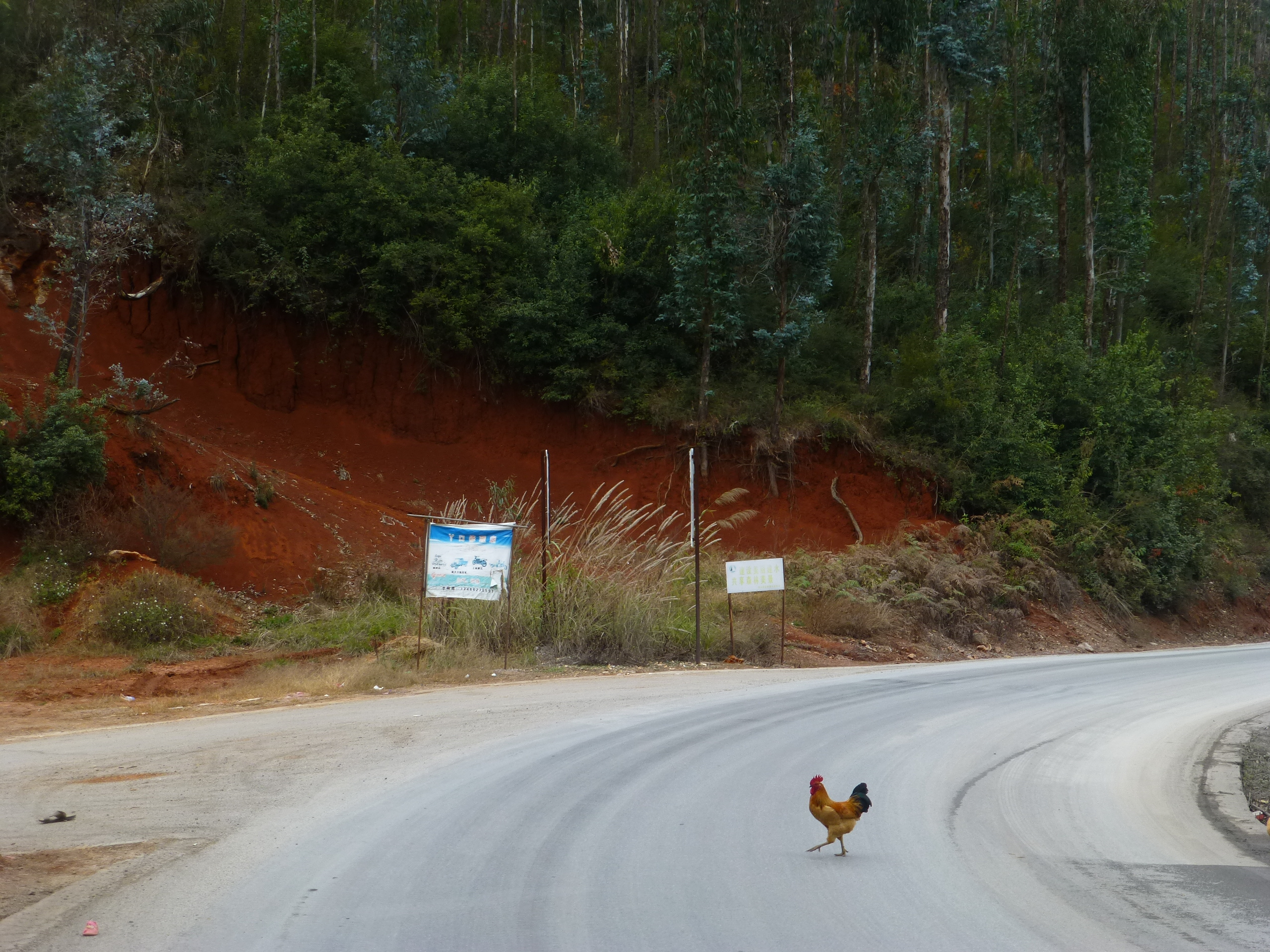 A rooster crosses Yunnan Provinial Hwy 214 in Jianshui County, somewhere around Huajiaozhai Village (north of Potou Township)